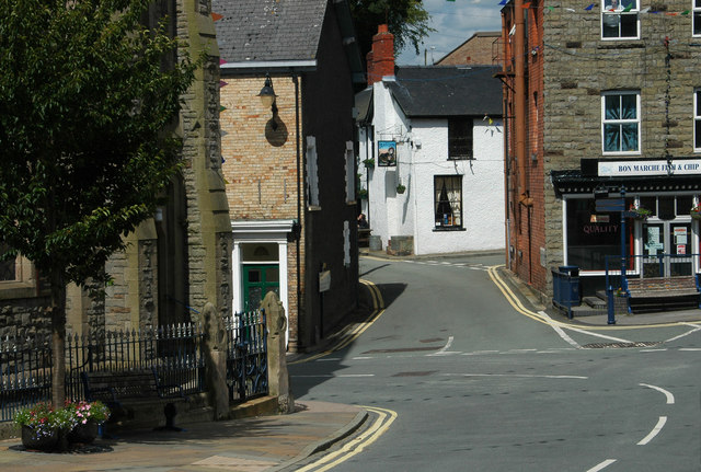 This way to 'The Black Lion'